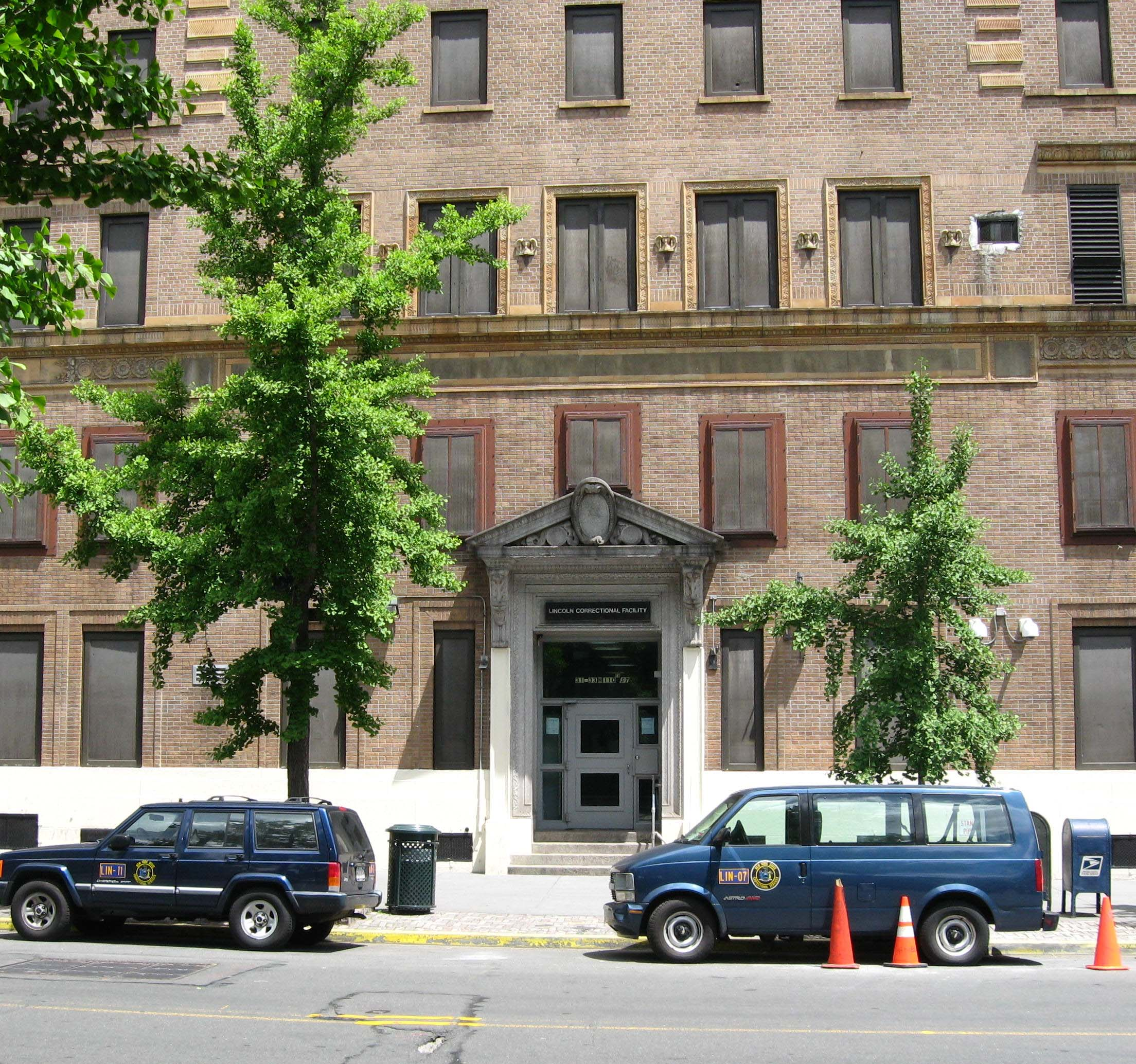 Looking north across en:110th Street (Manhattan) at Lincoln Correctional Facility on a sunny late morning.